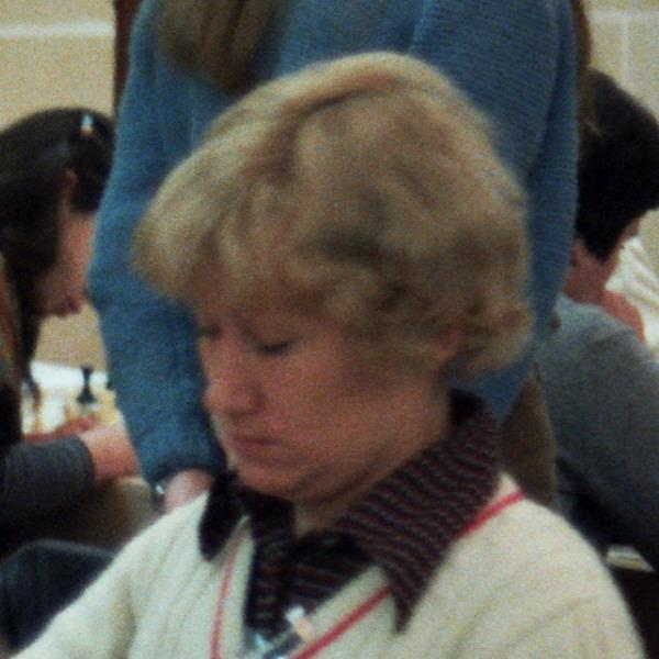 Zsuzsa Veroci at the Chess Olympiad 1980 in Malta, Photographer Gerhard Hund.